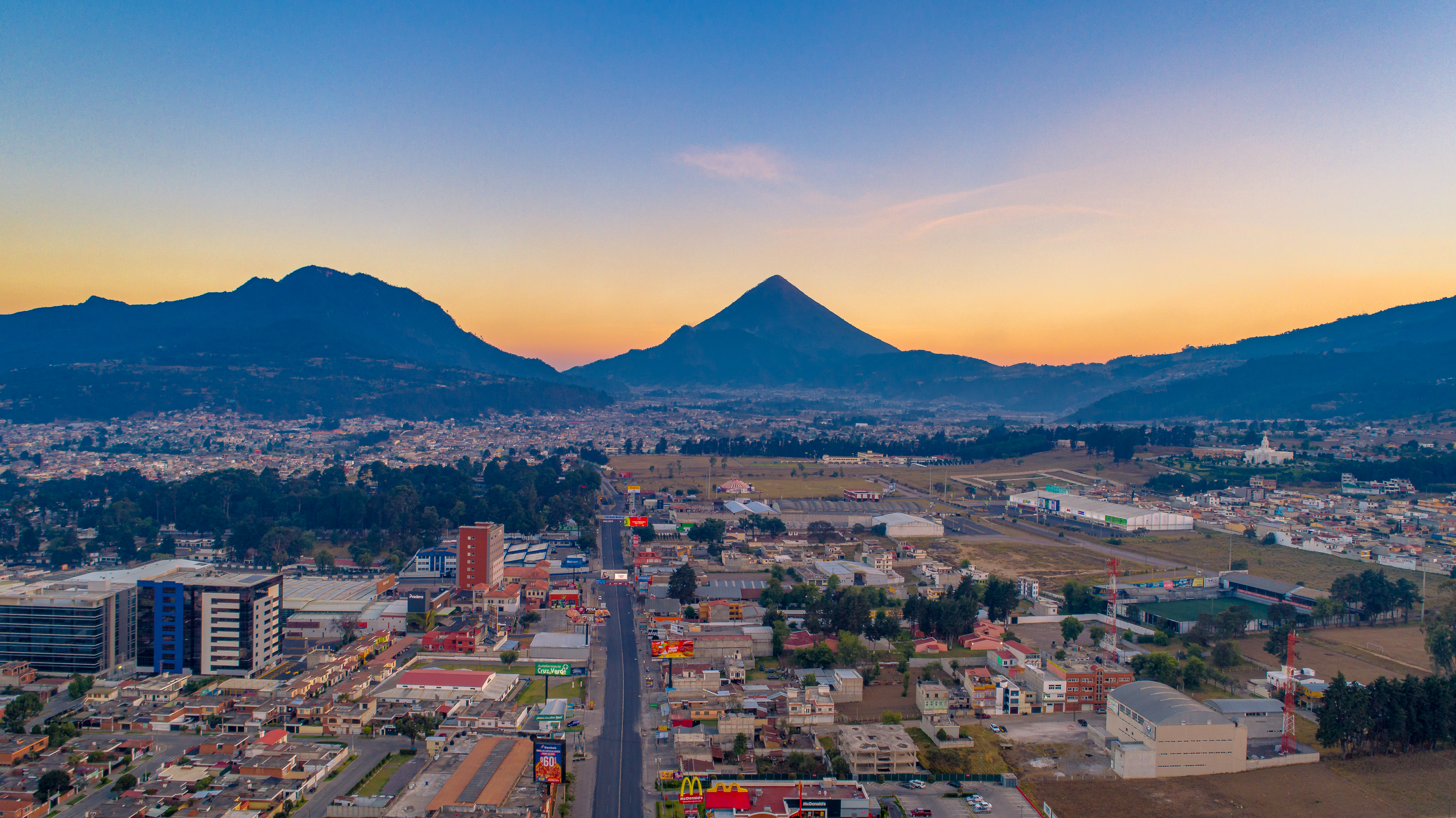 Panoramica de Quetzaltenango